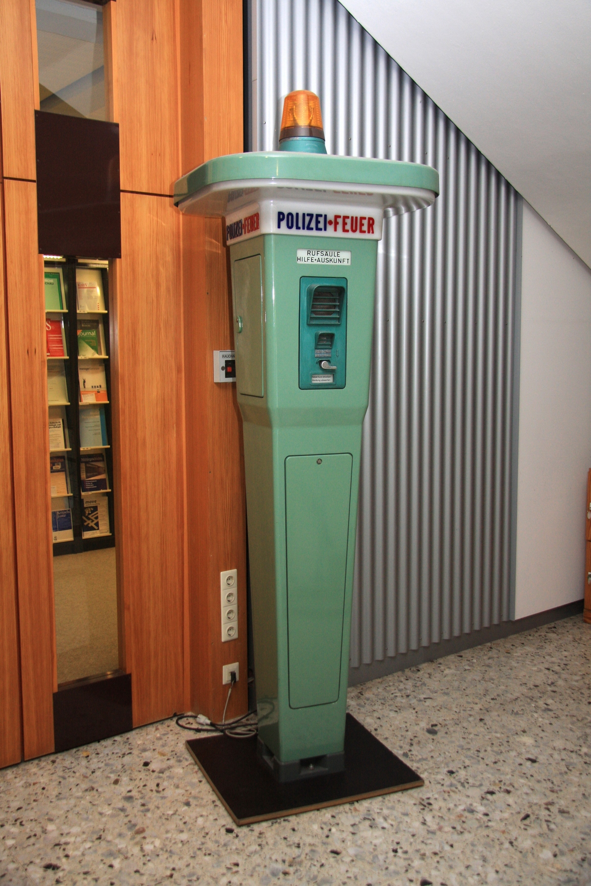 Emergency telephone